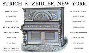 Advertisement for Stirch & Ziedler Pianos Found at